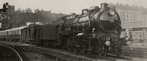 Flèche d'Or, Golden Arrow, Paris